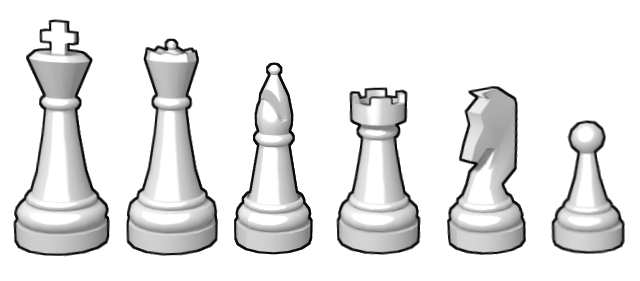 Illustration of Chess pieces created by Wapcaplet in Blender. Current version of this picture doesn't reflect actualised (2014) binding FIDE standards more.